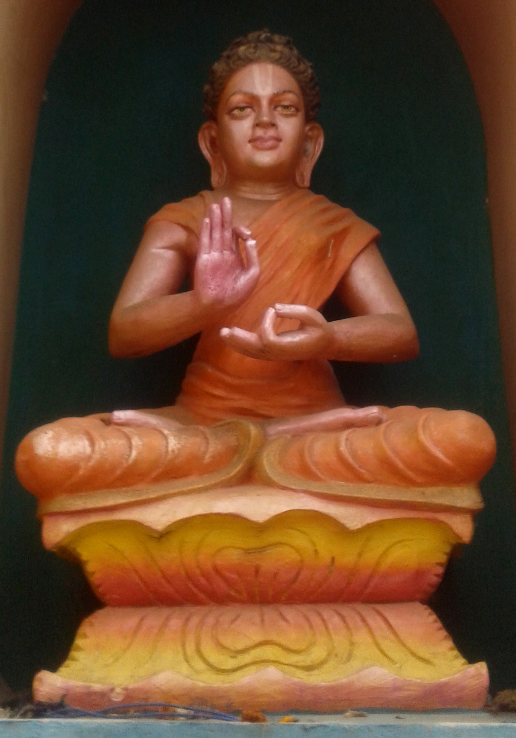 Buddha statue at Dwaraka Tirumala Temple, West Godavari district